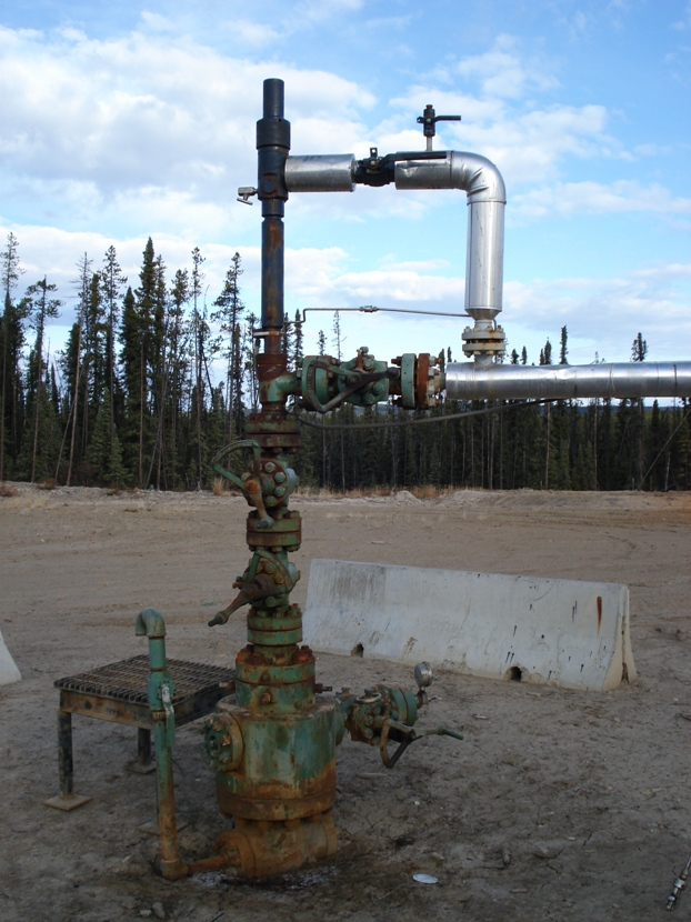 Wellhead in Northern BC, Canada Top of wellhead has a plunger lift catcher which is used to catch the plunger as it comes up the well and then release it at a predetermined well rate.